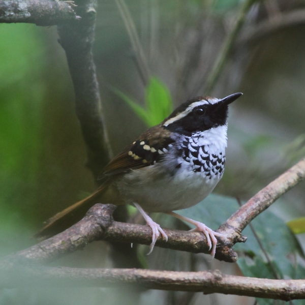 White-bibbed Antbird (male) at Itatiaia National Park - RJ - Brazil